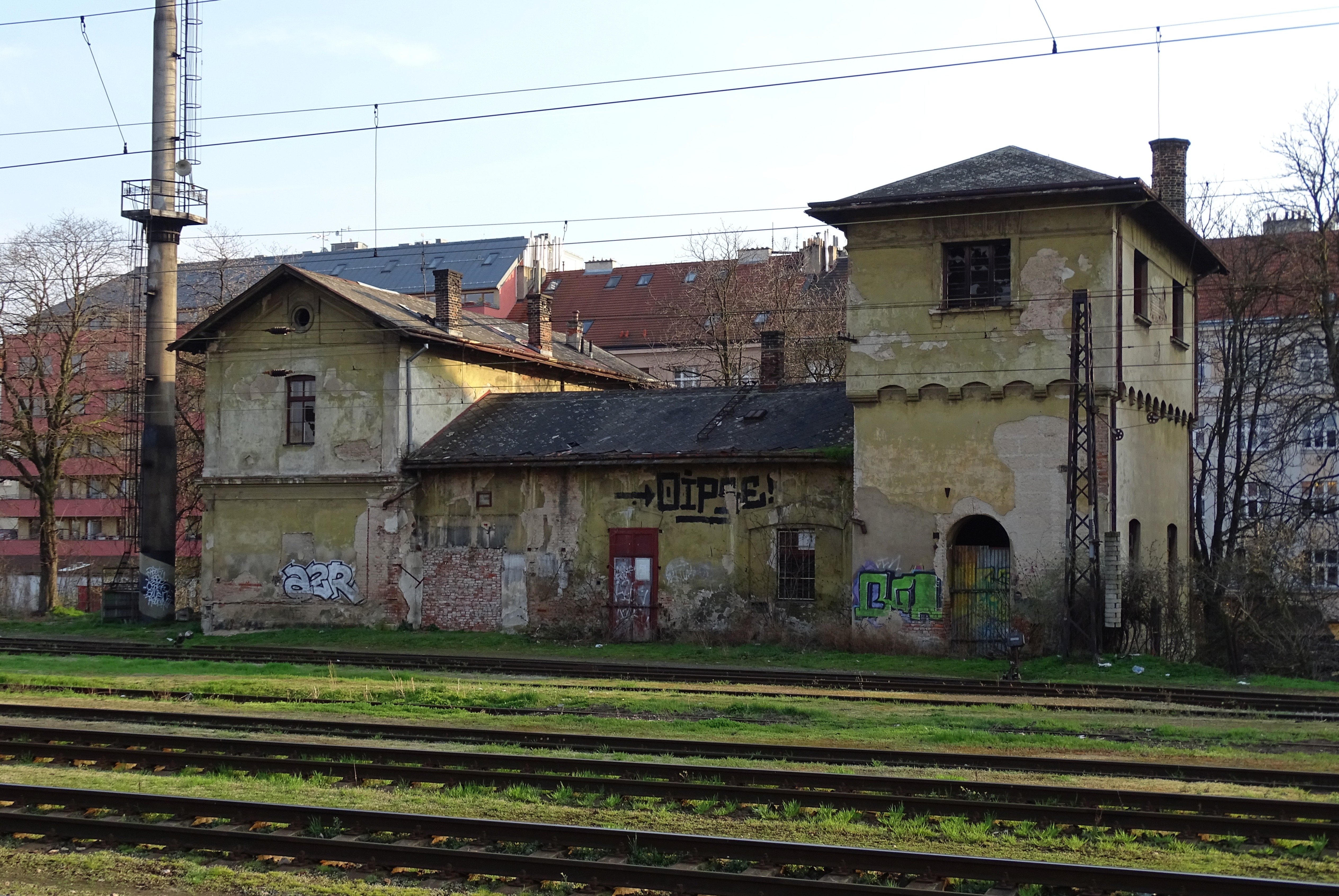 Prague-Vršovice, Czech Republic. Train station Praha-Vršovice, old building Bartoškova 305/3.